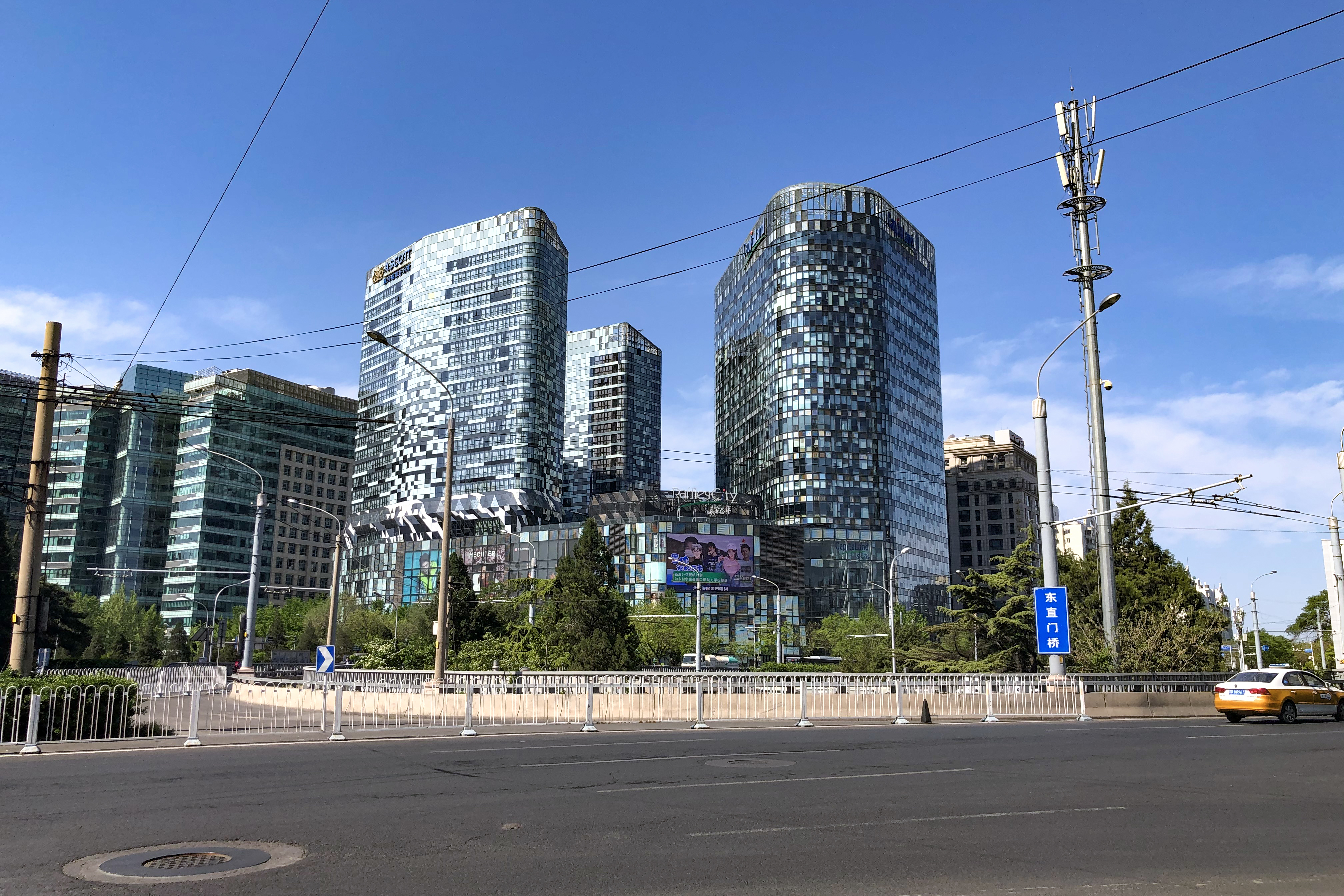 No more than a B743...